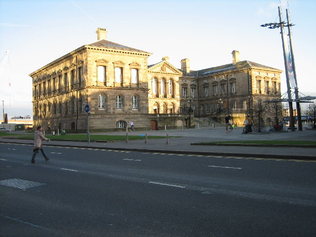 The Custom House, Belfast. It was designed by Samuel Ferris Lynn in the Italian Renaissance style and was completed in 1856. The Big Fish in the same square shows the other side of this building in the background.